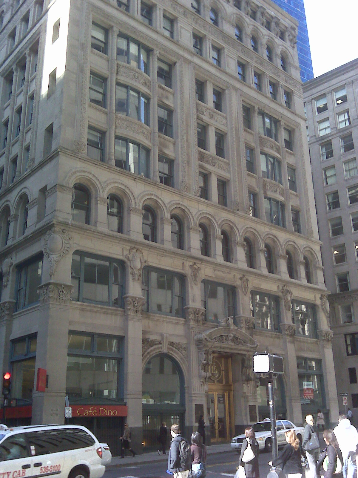 Photograph of the International Trust Company Building at 45 Milk Street in Boston, Massachusette, listed on the National Register of Historic Places.